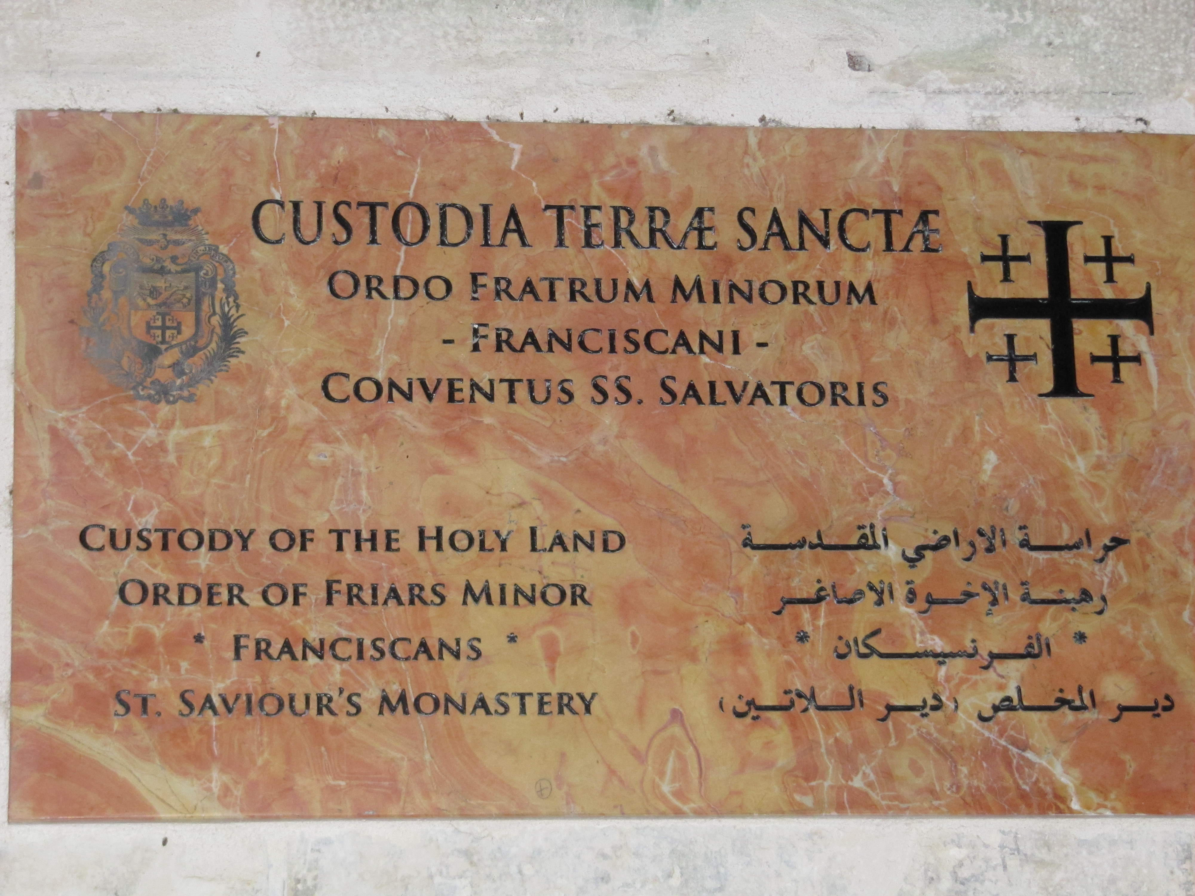 Old Jerusalem, Monastery of St. Saviour, Custody of the Holy Land sign.